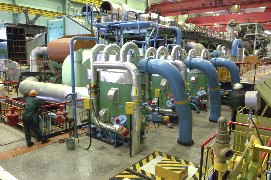 “Kalinin nuclear power plant in Tver Region”. No.2 generating unit's turbine room at the Kalinin nuclear power plant in Udomlya.